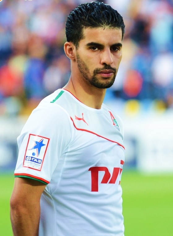 Mbark Boussoufa 2014